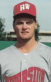 Professional baseball player Jim Austin